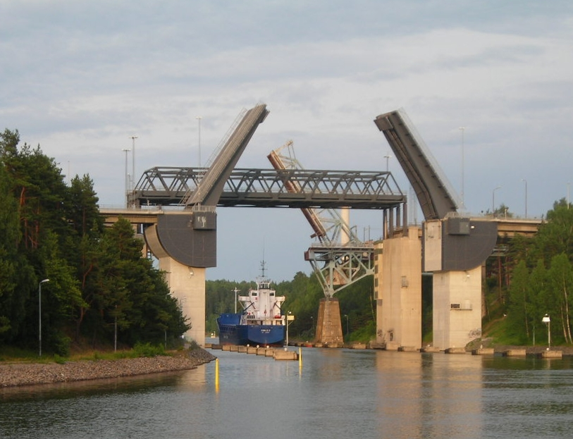 Bridges over Södertälje Canal, Södertälje, Sweden. From foreground, the Saltsjö bridge, road 225, then the E4 motorway bridge (lifted), then the railway bridge (formerly the main railway now local railway)